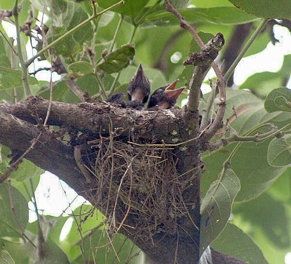 Black Drongo Dicrurus macrocercus in Kolkata, West Bengal, India.